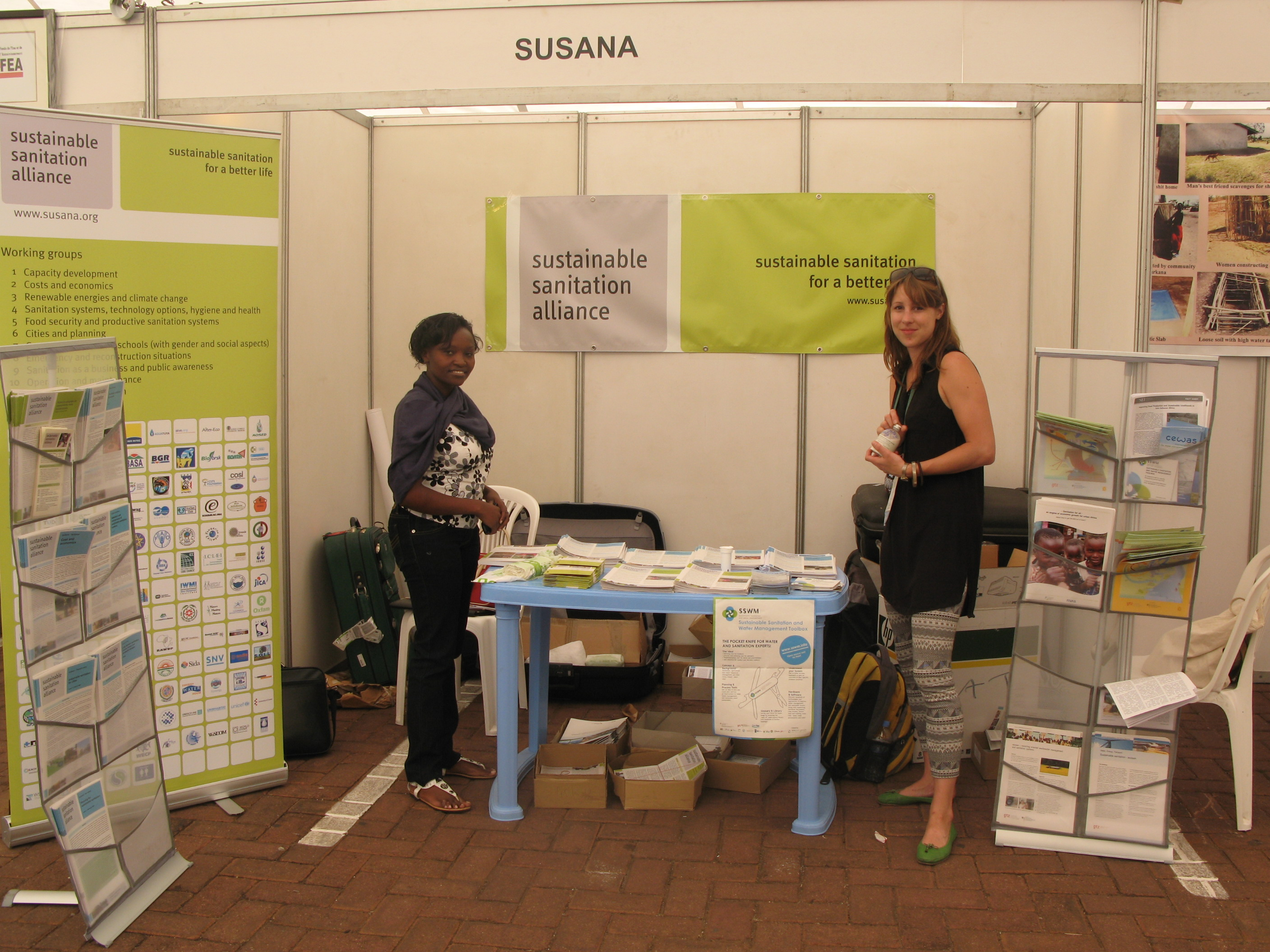 Photo by: E. von Muench July 2011